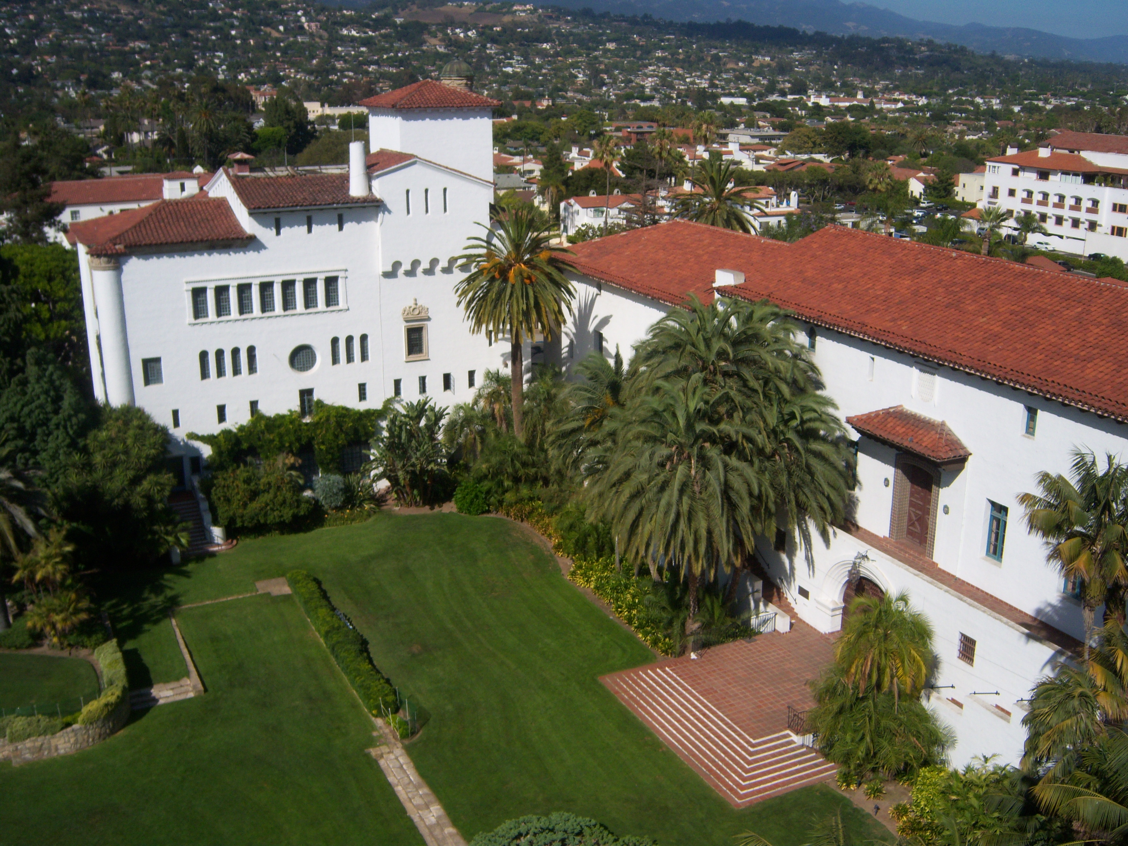 NO. 1037 Santa Barbara County Courthouse - The Santa Barbara County Courthouse was constructed in 1929 and is a complex of four buildings occupying an entire city block in downtown Santa Barbara. It was designed by master architect William Mooser in the Spanish Colonial/Moorish Revival style. It is an extraordinary example of its style, with an elaborate array of detail emulating a Spanish castle or fortress. Location: 1100 Anacapa Street, Santa Barbara